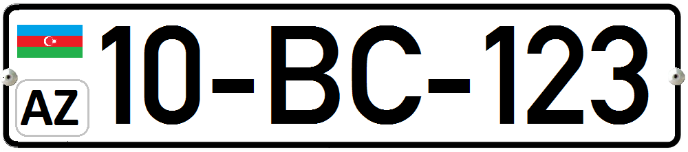 Private license plate in Azerbaijan